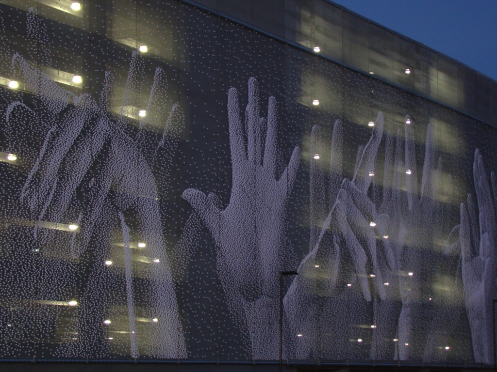 Hands, San Jose, California 2010. chain link fence with 400,000 plastic dots